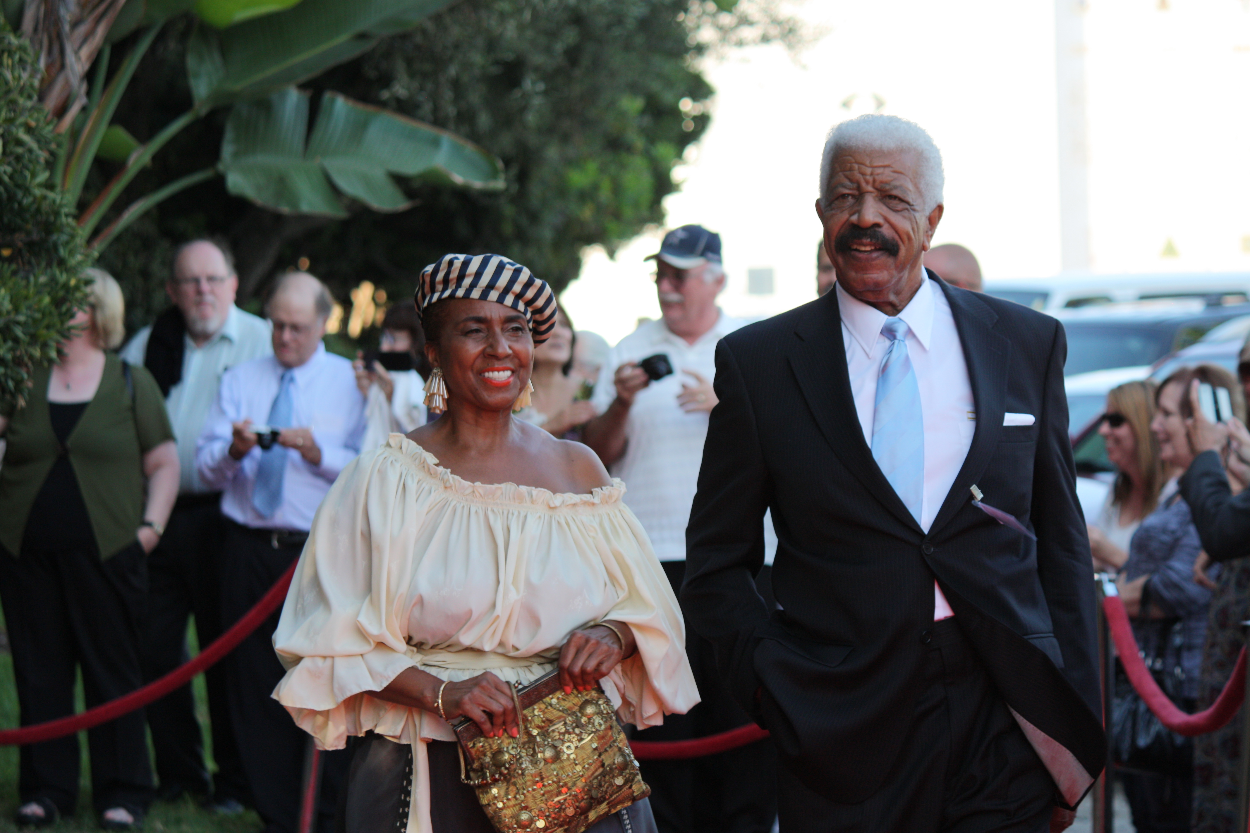 Hall Williams at The Waltons 40th Anniversary in 2012